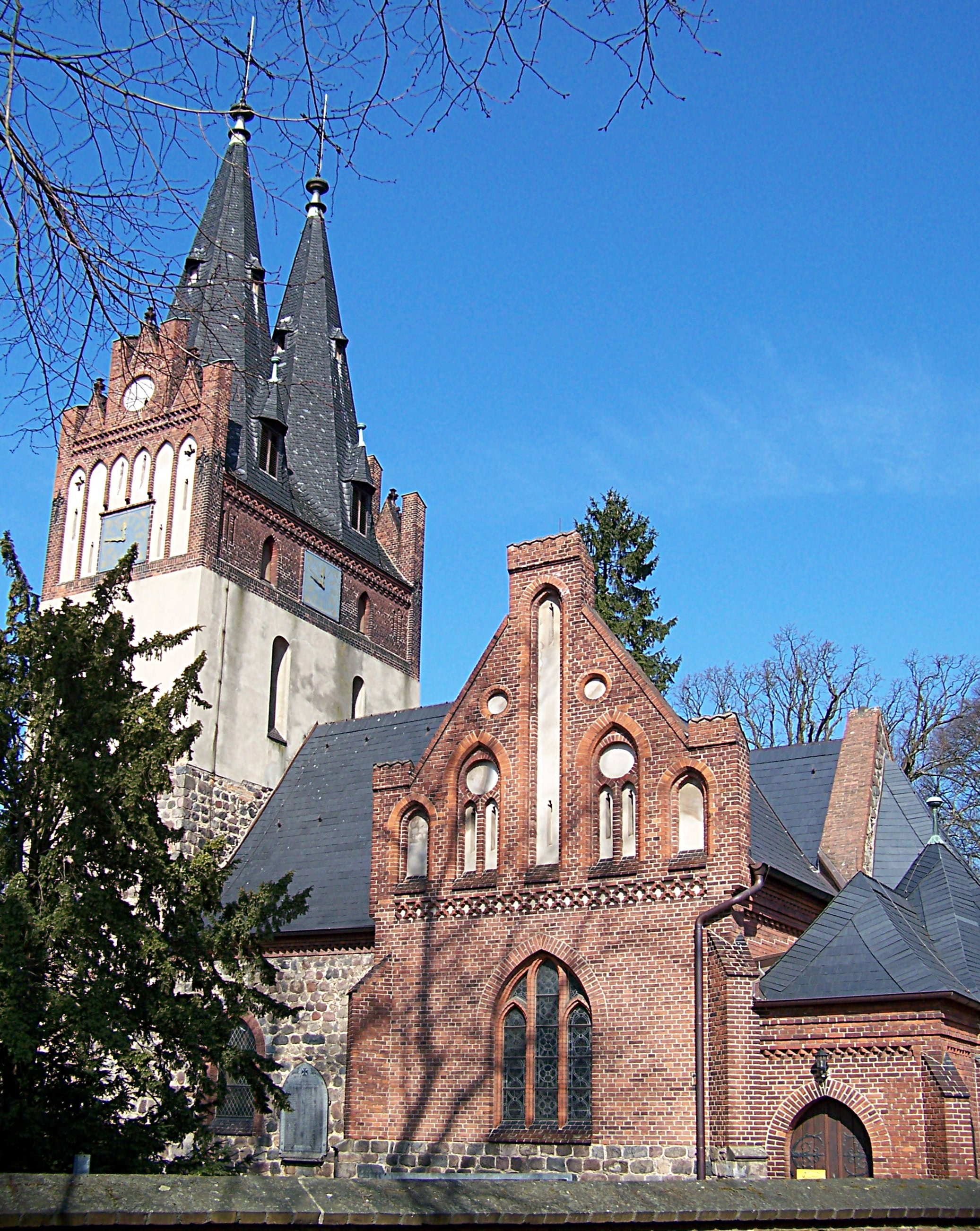 Protestant St. Annen Church in Zepernick, Panketal municipality, Barnim district, Brandenburg state, Germany Object location52° 39′ 18.54″ N, 13° 32′ 33.91″ E